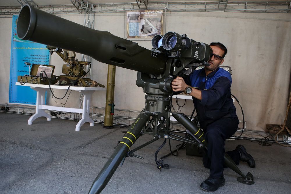 A passerby looks through the sight of a Toophan missile launcher at an Iranian Armed Forces presentation.